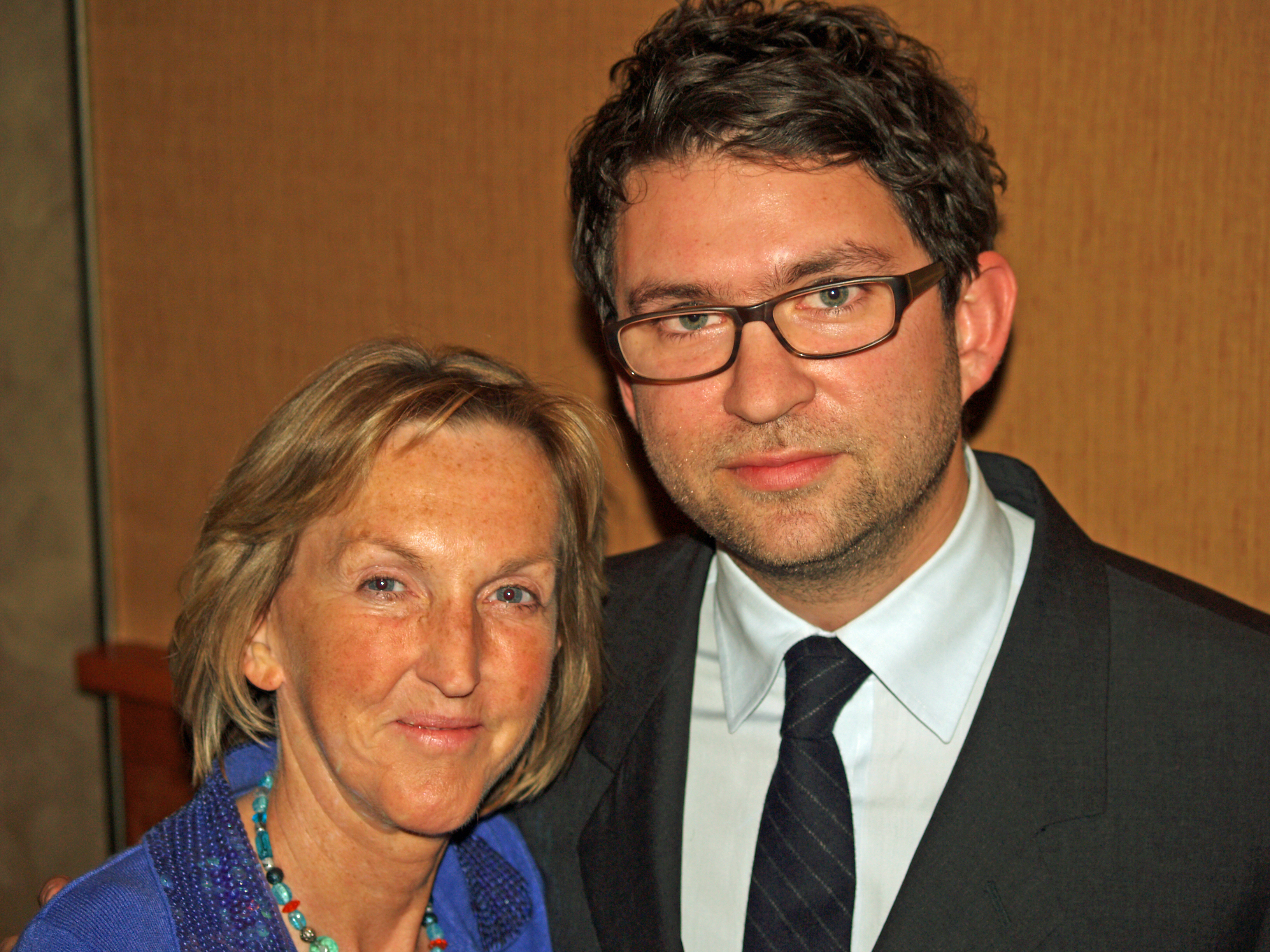 Ingrid Newkirk and Matthew Gilkin by David Shankbone.